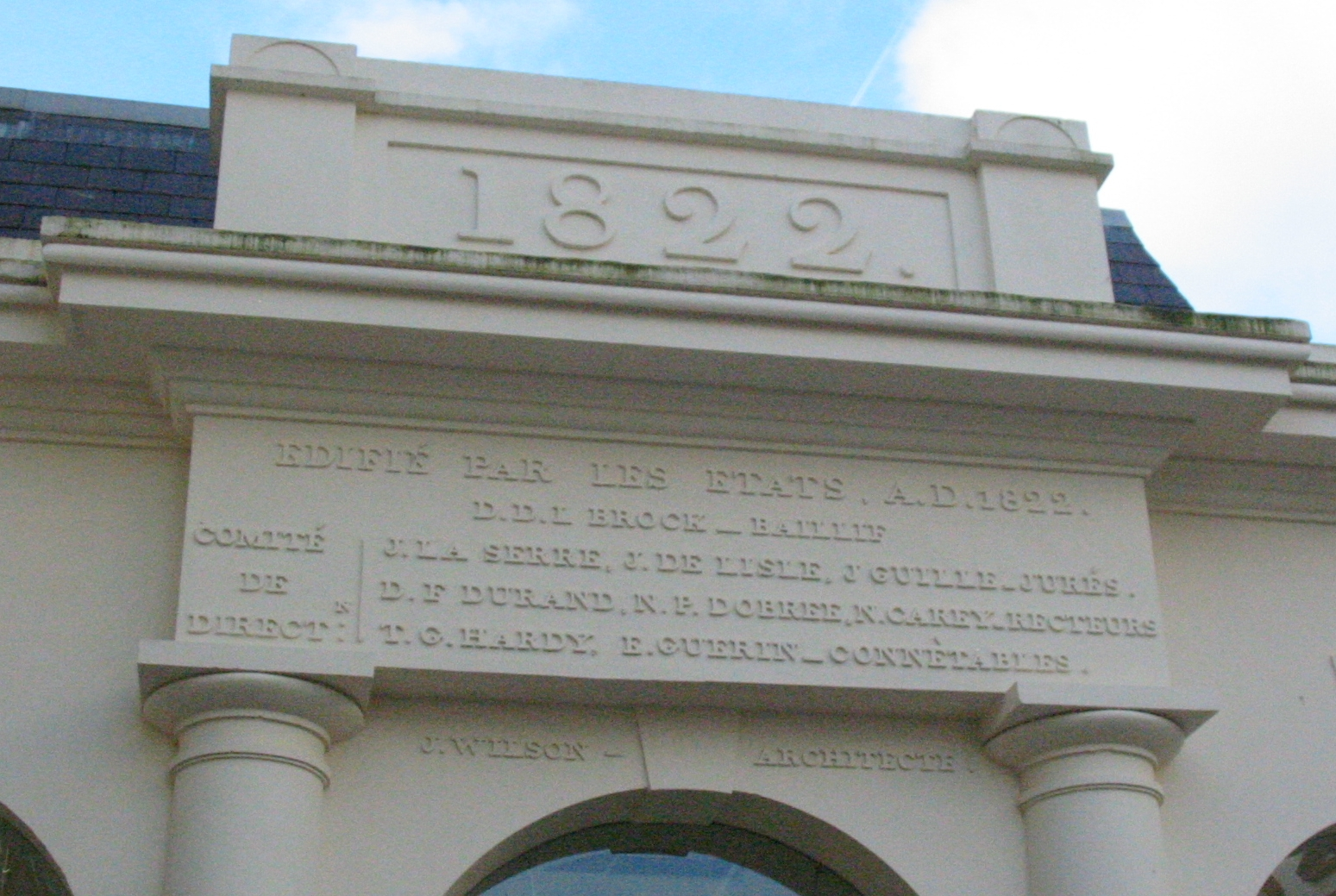 Saint Peter Port, Guernsey